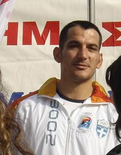 The Olympic winner Pirros Dimas, as photographed by me, User:Lemur12 during a visit in Dion, Pieria.